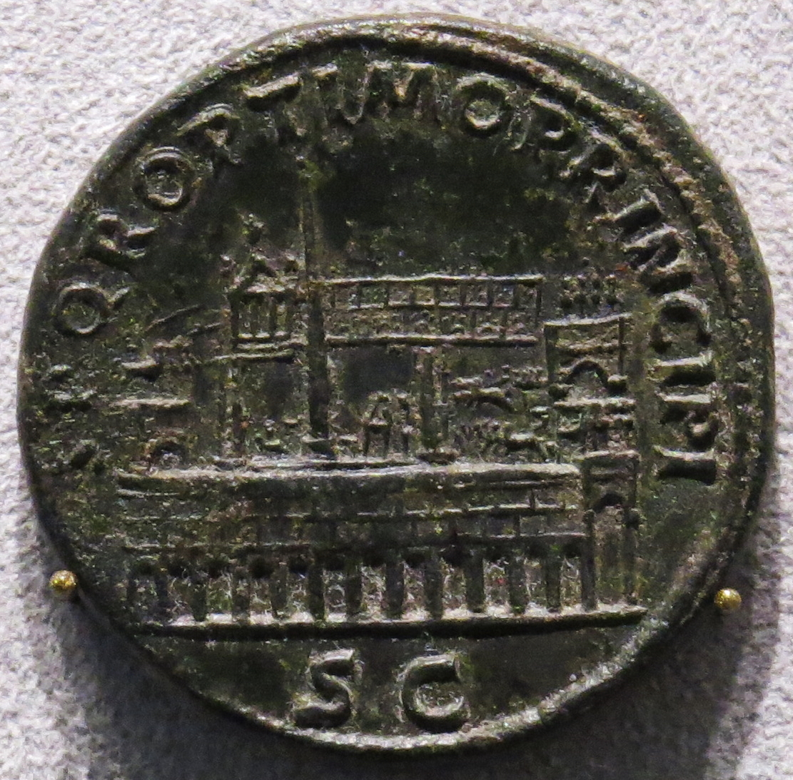 Sestertius of Trajan celebrating the restoration of the Circus Maximus (minted 103 AD).[1] (Altes Museum, Berlin) ↑ Sear, David R. (2002). Roman Coins and Their Values. Volume II: The Accession of Nerva to the overthrow of the Severan dynasty, AD96-AD235 (pp. 112, coin # 3208). London: Spink. ISBN 1 902040 45 7